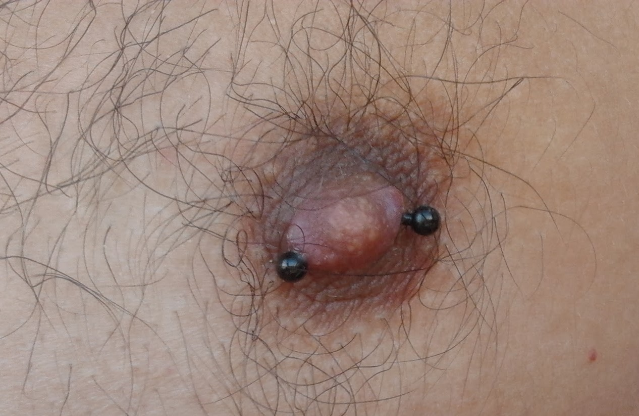 Male Nipple Piercing